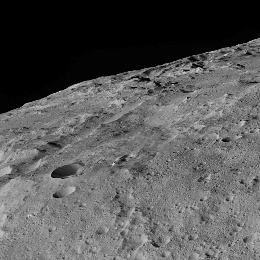 Original caption: These views of Ceres, taken by NASA's Dawn spacecraft on December 10, shows an area in the southern mid-latitudes of the dwarf planet. They are located at approximately 38.1 south latitude, 209.7 east longitude, around a crater chain called Gerber Catena. Many of the troughs and grooves on Ceres were likely formed as a result of impacts, but some appear to be tectonic, reflecting internal stresses that broke the crust. A slightly different view of the same area, taken in the same sequence (Figure 1), is also available. The two views were combined to make a 3-D anaglyph (Figure 2). The spacecraft took these images in its low-altitude mapping orbit (LAMO) from an approximate distance of 240 miles (385 kilometers) from Ceres.